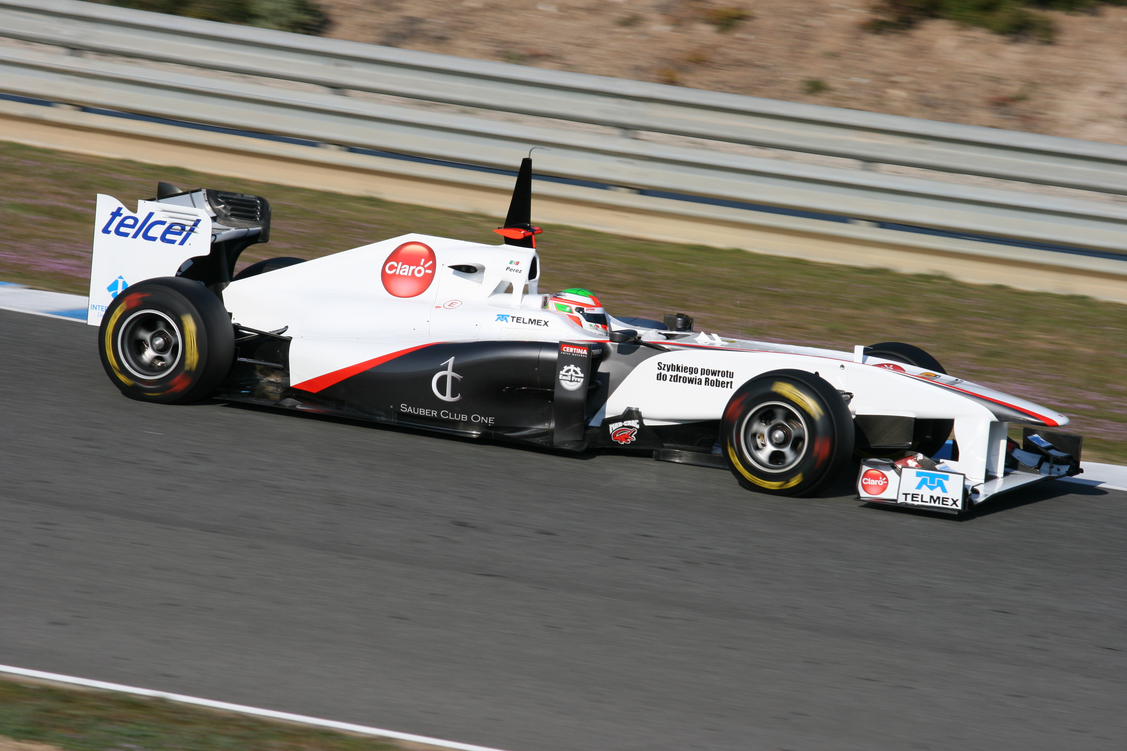 Sergio Pérez testing for Sauber at Jerez.